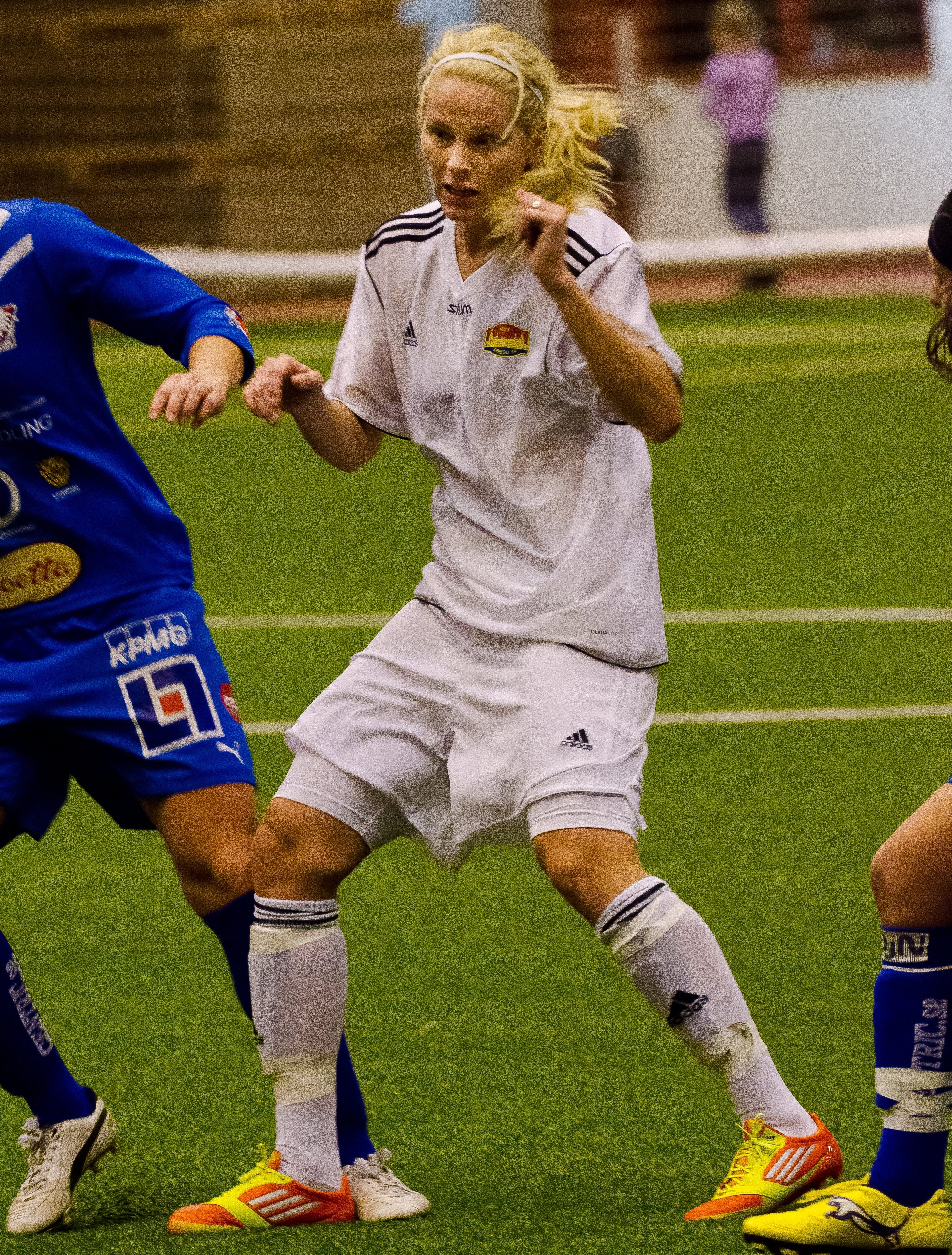 Lisa Dahlkvist playing a pre-season game for Tyresö, February 2012.